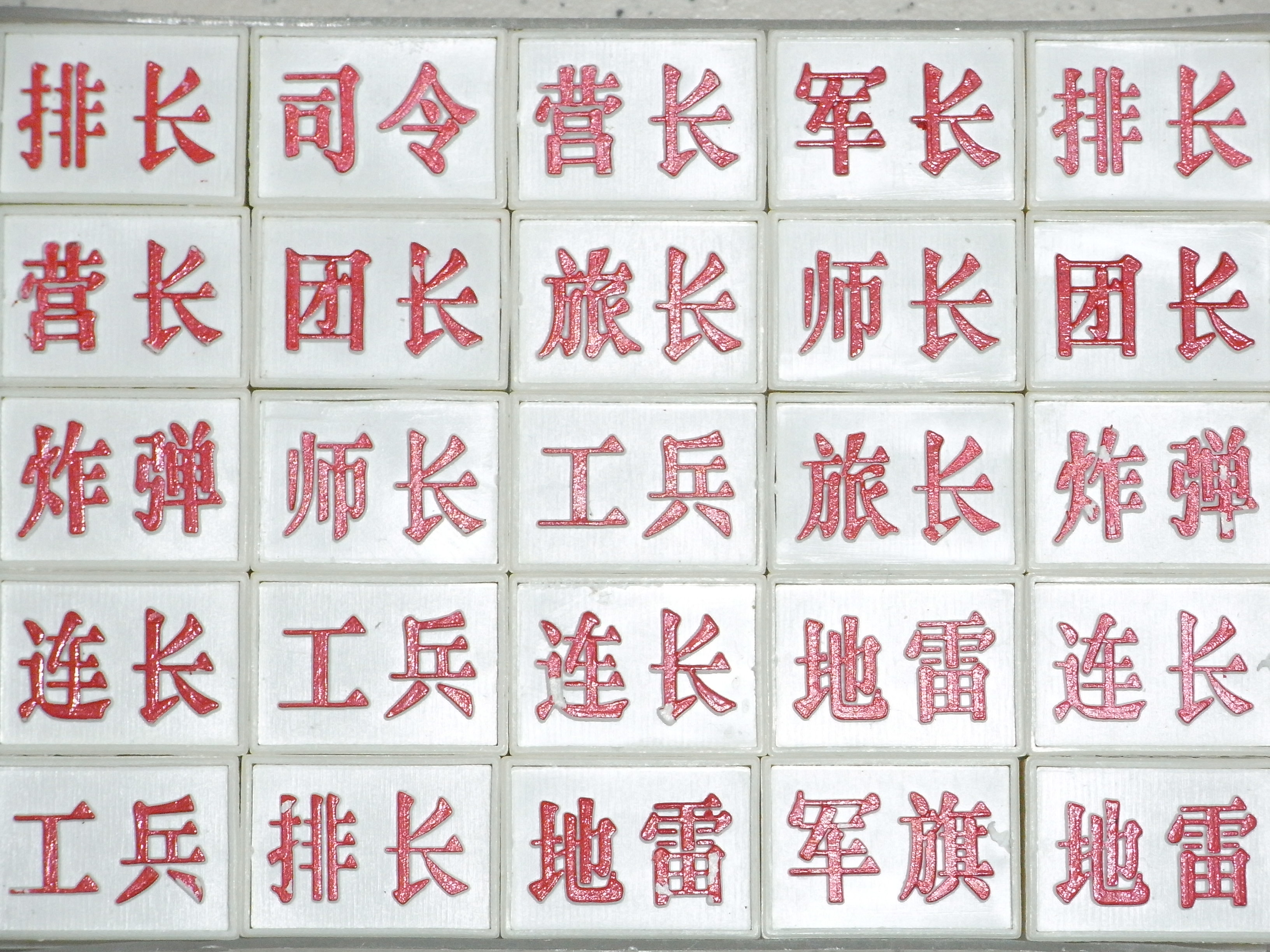 棋子 - 陸軍棋